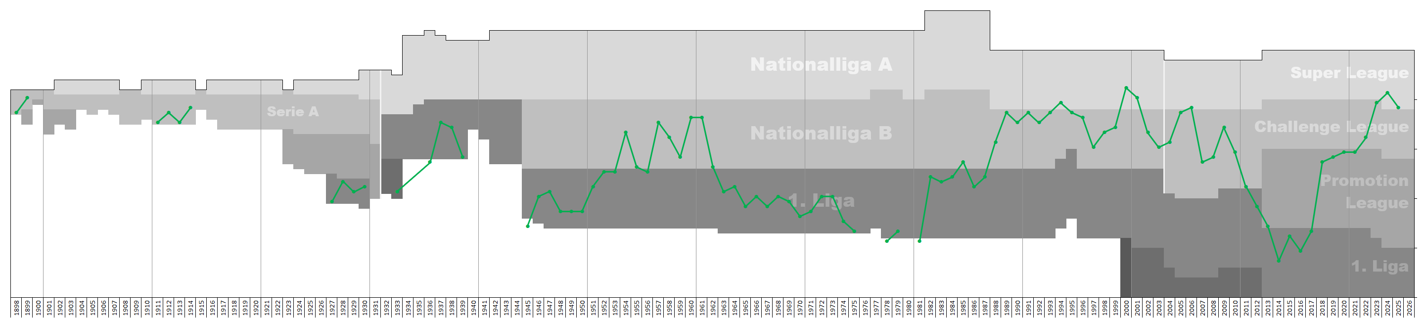 Chart of end-season table positions for Yverdon-Sport in the Swiss football league system. Data source: RSSSF